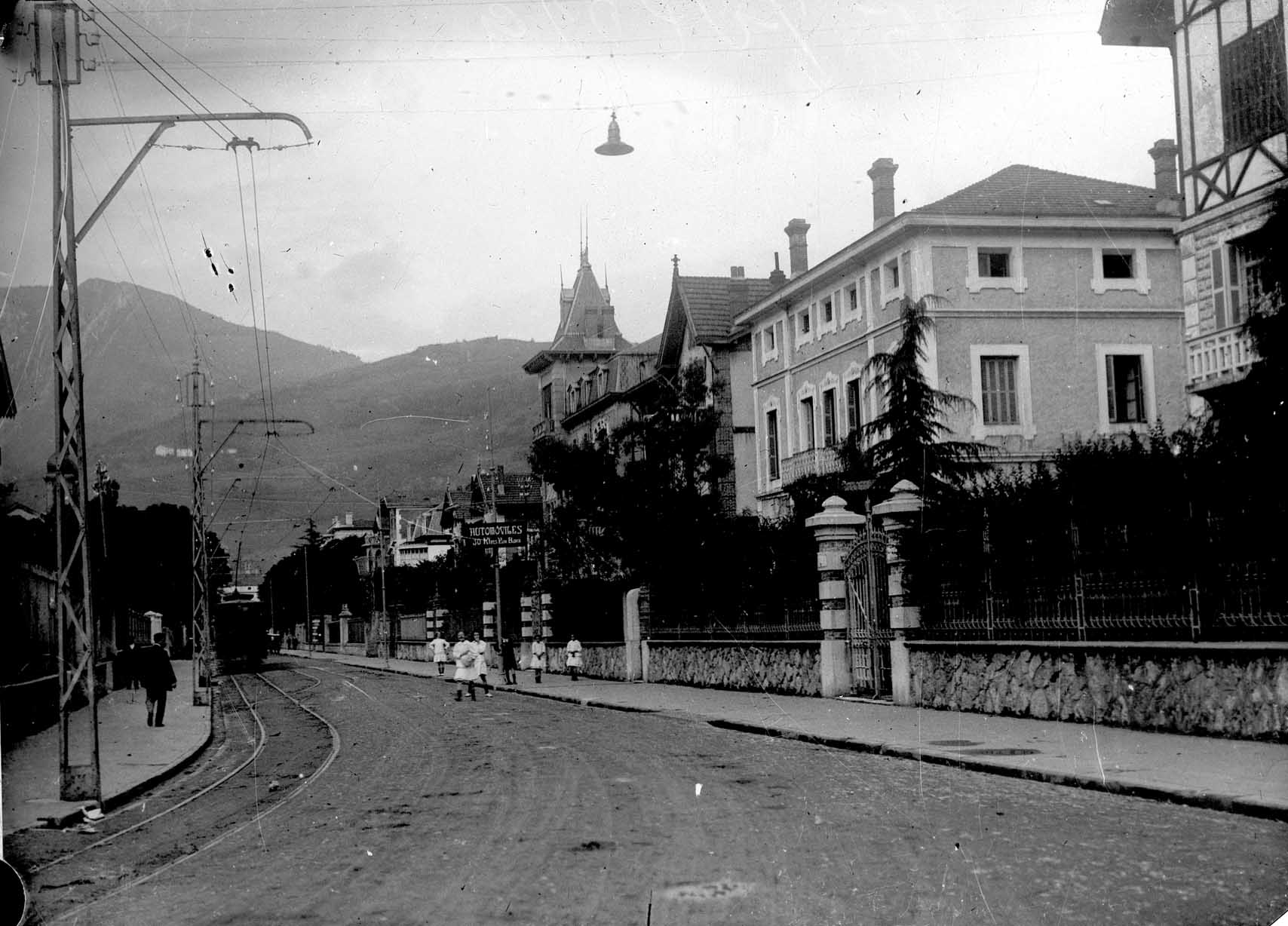 XX. San Francisco street, beginning of XX century, Tolosa